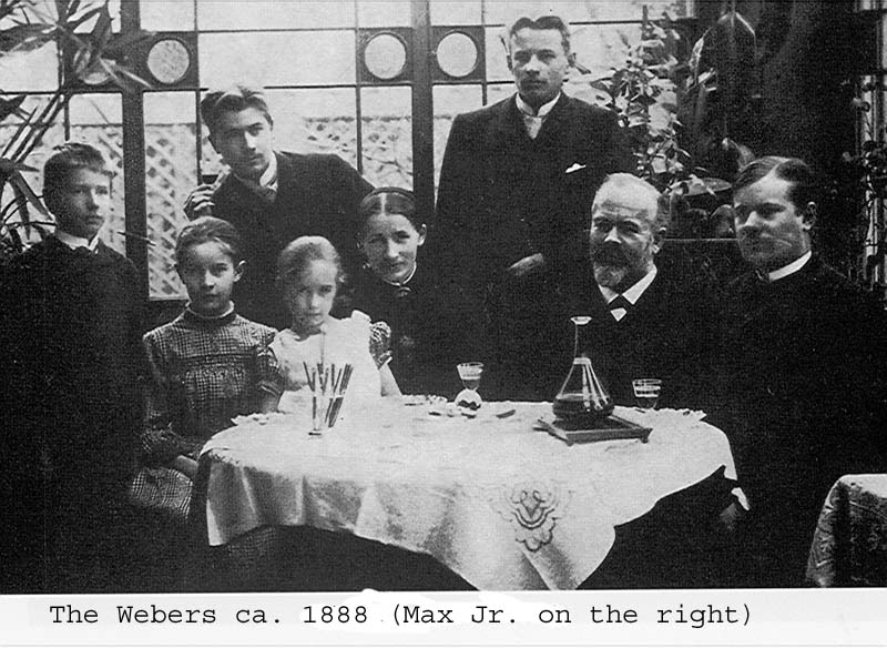 Weber family: ca. 1888. Max Weber (Jr.) on the right. To the left, possibly: Max Weber. Sr, Helene Weber, Max. Jr. two out of three brothers (Alfred, Arthur, Karl), then possibly sisters?